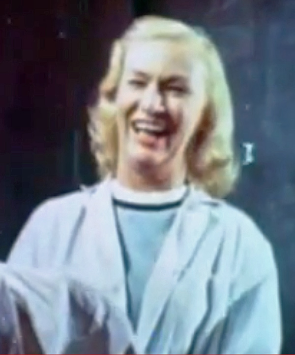 Veronica Lake in trailer for Flesh Feast (1970)